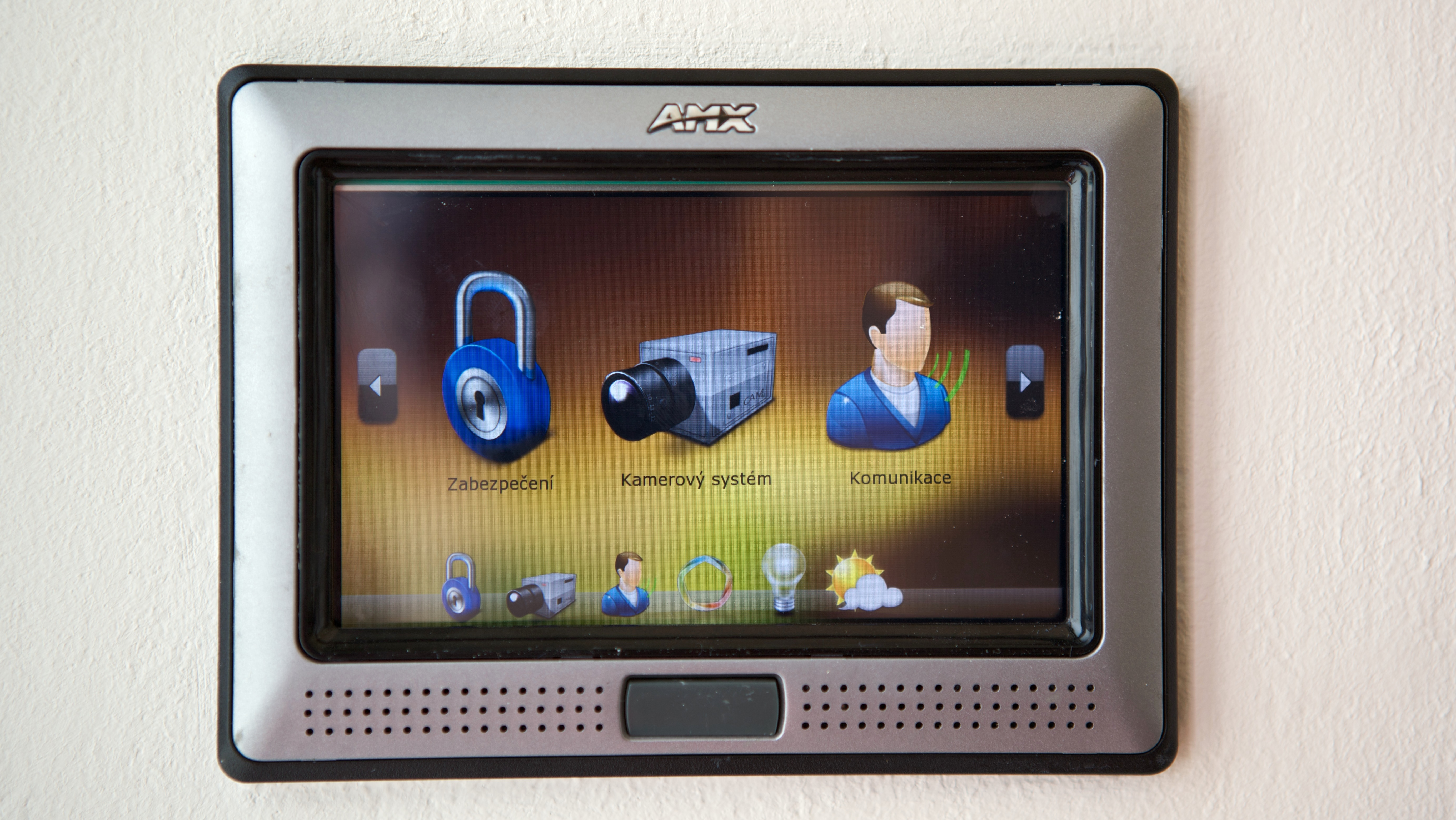 Control panel for an intelligent building.